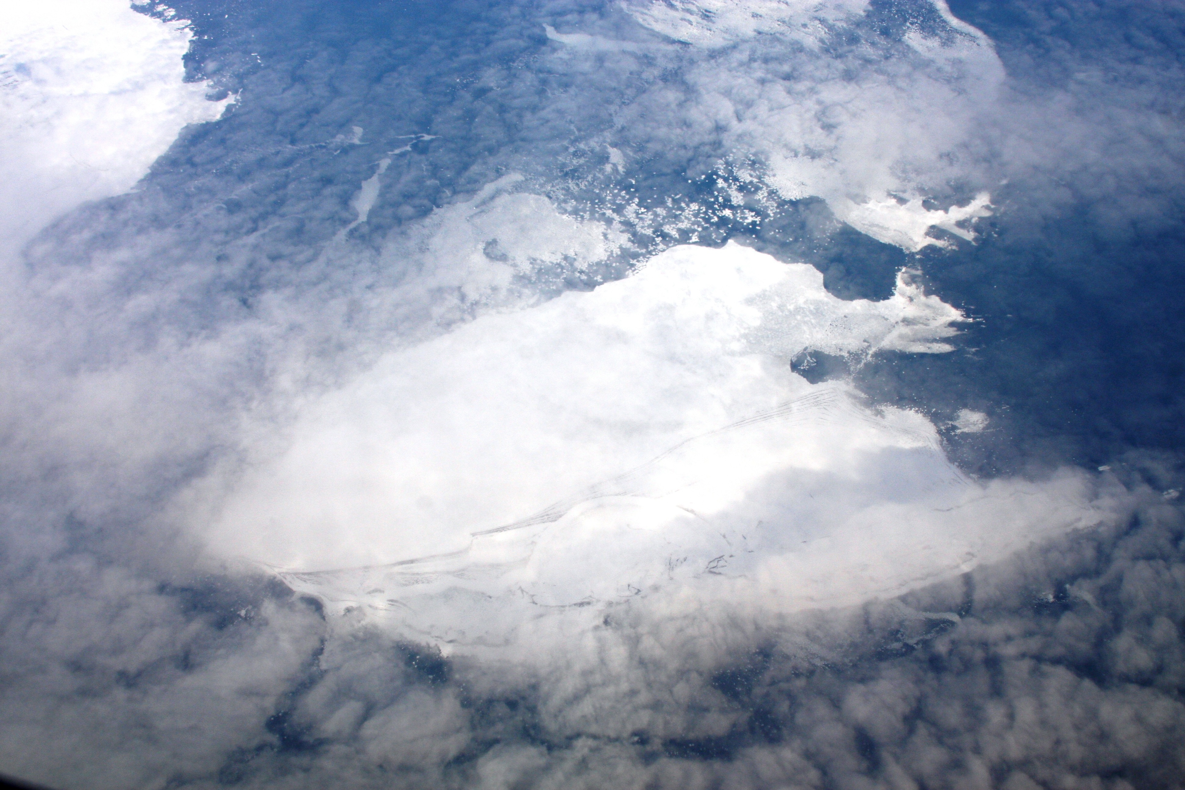 Photo taken in late April, with ice cover extending southwest of the island.